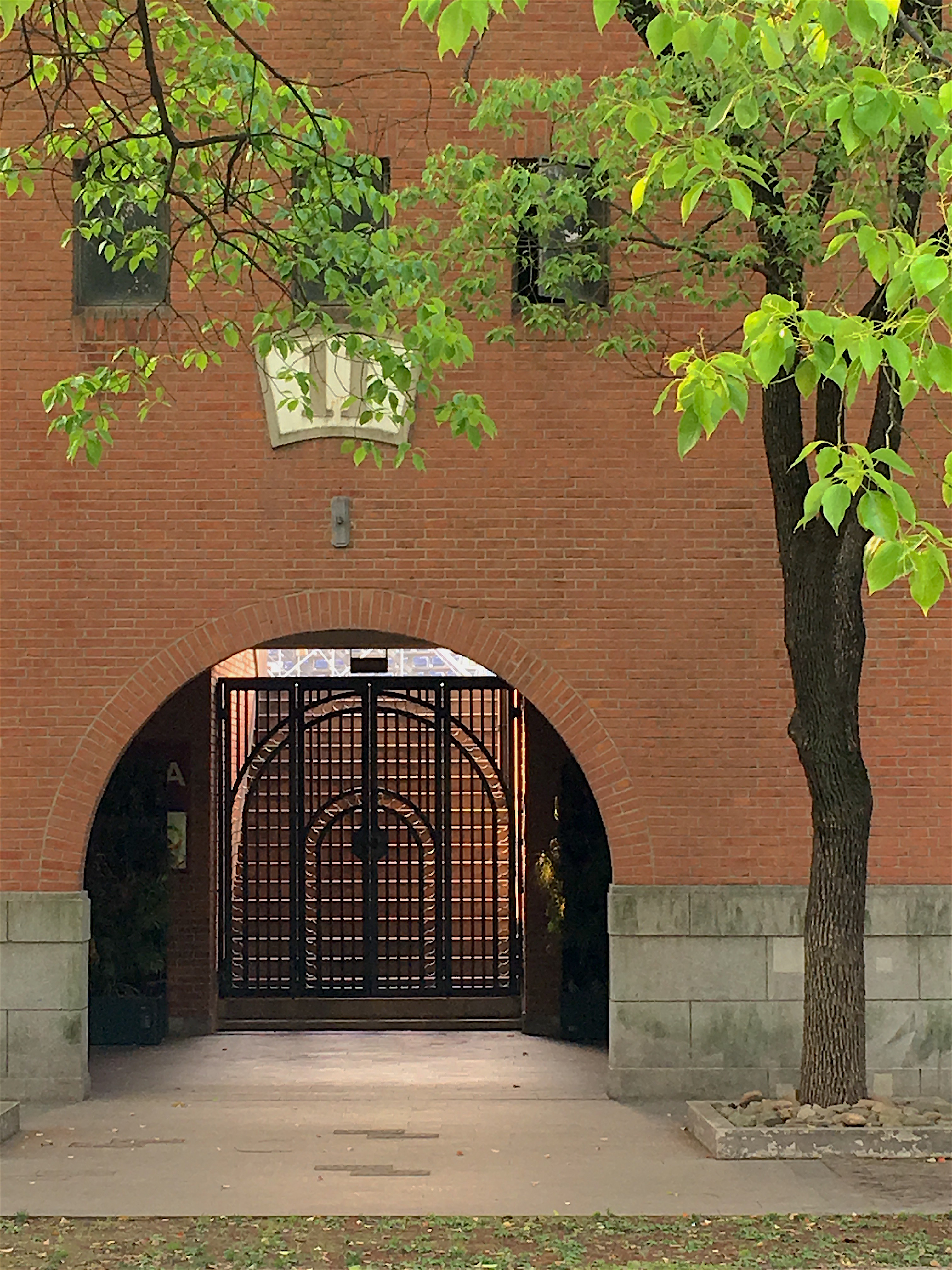 Photo of Jiangwan Stadium gate 11 from the 2017 AFL match between Gold Coast and Port Adelaide. 14/7/18